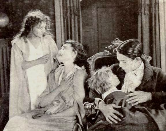 Still from the American comedy film The Ghost House (1917) with Louise Huff, Olga Grey, and Jack Pickford, on page 27 of the October 20, 1917 Exhibitors Herald.